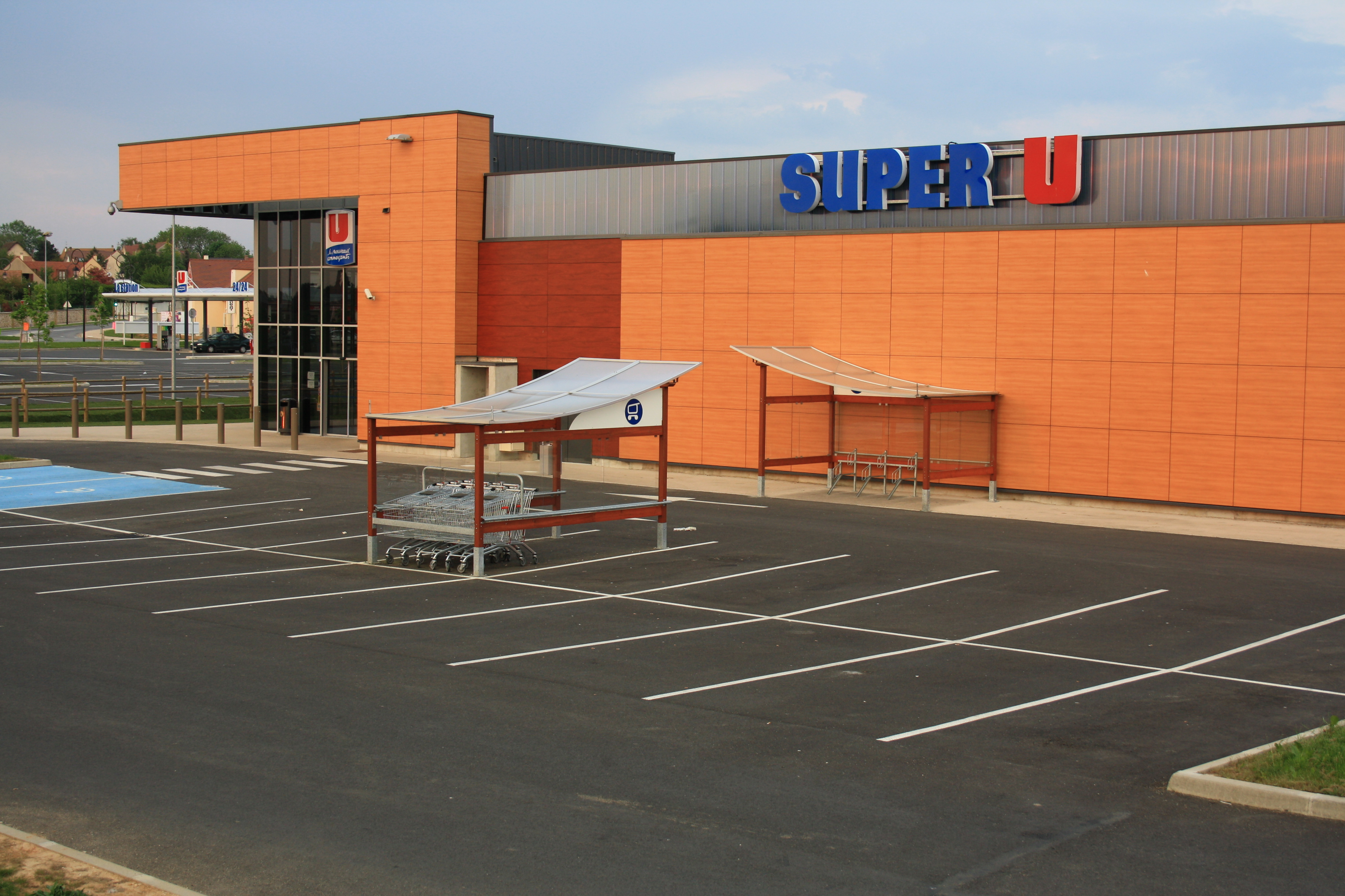 Supermarket Super-U in Gometz-la-Ville in France